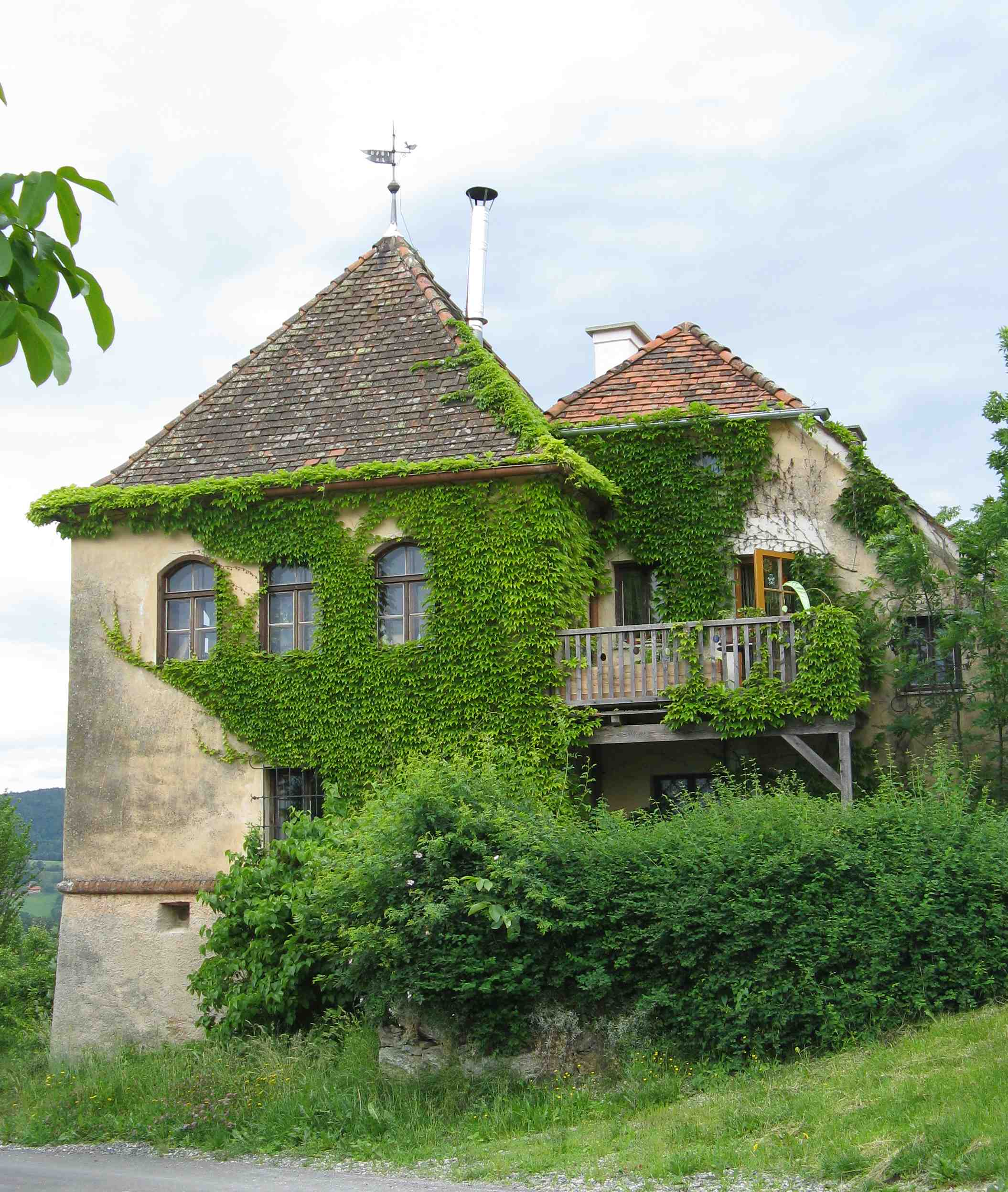 Ruins of Altschielleiten - part with inhabitants Ruine Altschielleiten - bewohnter Teil